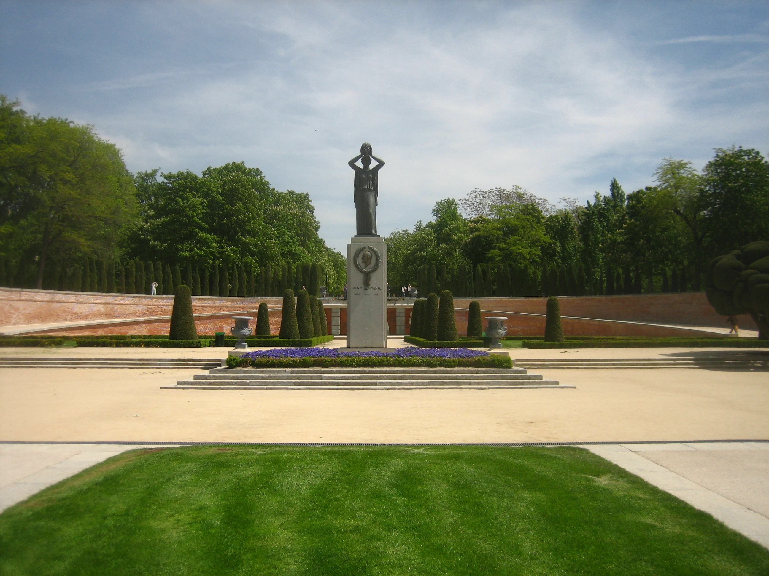 The monument to Jacinto Benavente (1866–1954) in Retiro Park in Madrid (Spain). Sculpted by Victorio Macho and built in 1962. Bronze statue is an allegory of Theatre.